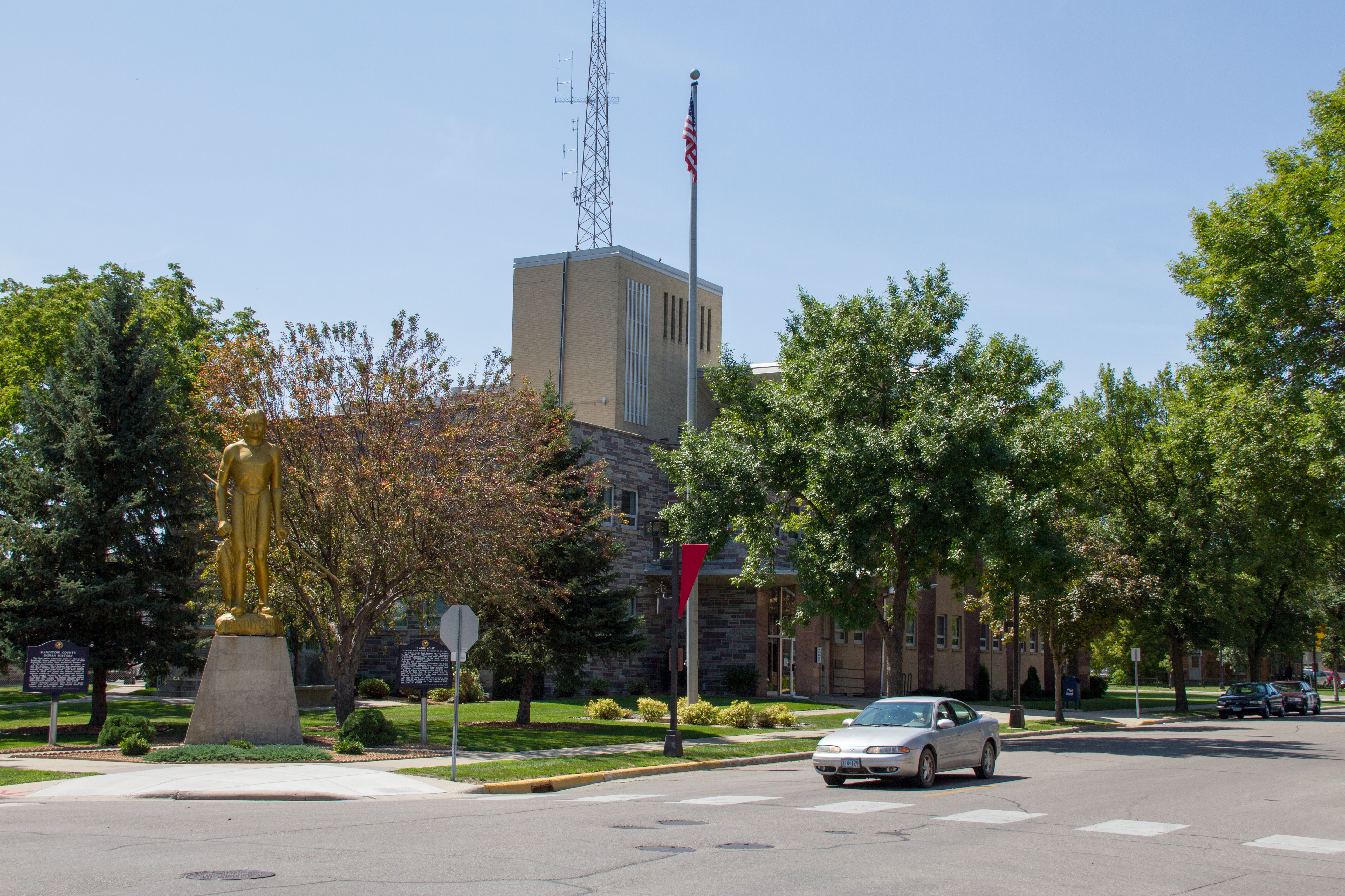 Kandiyohi County Courthouse, Willmar, Minnesota, USA.